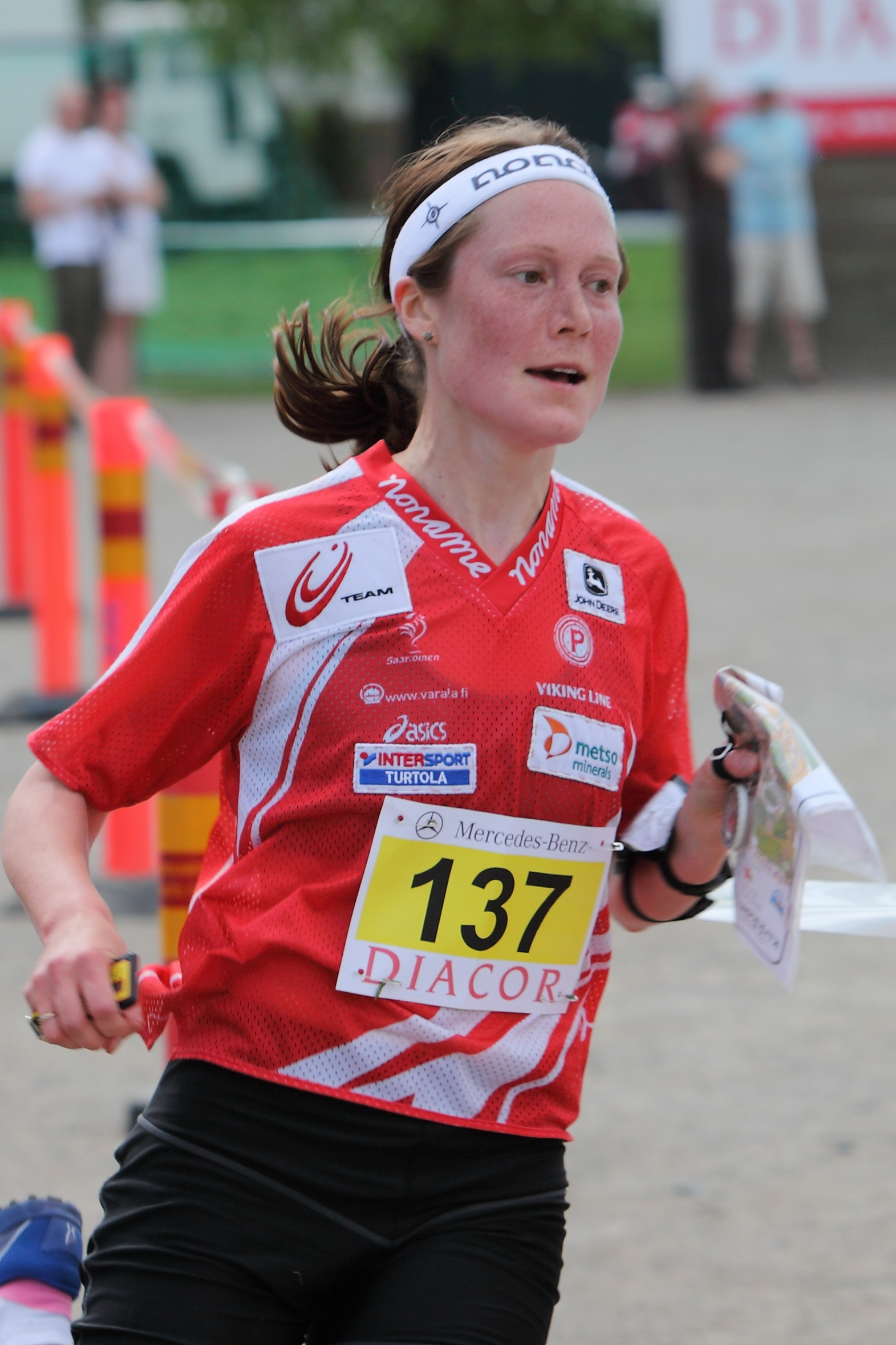 Anni-Maija Fincke, sprint orienteering competition, Kirkkonummi